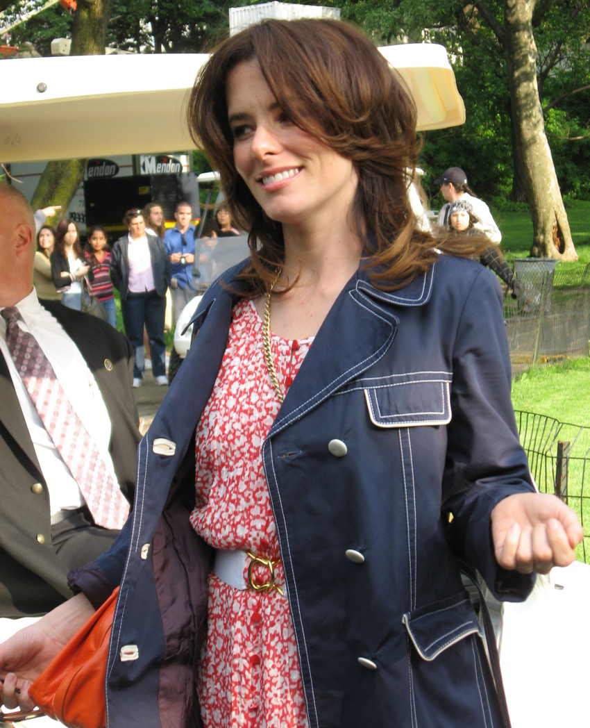 Parker Posey at Fox Upfronts 2007.